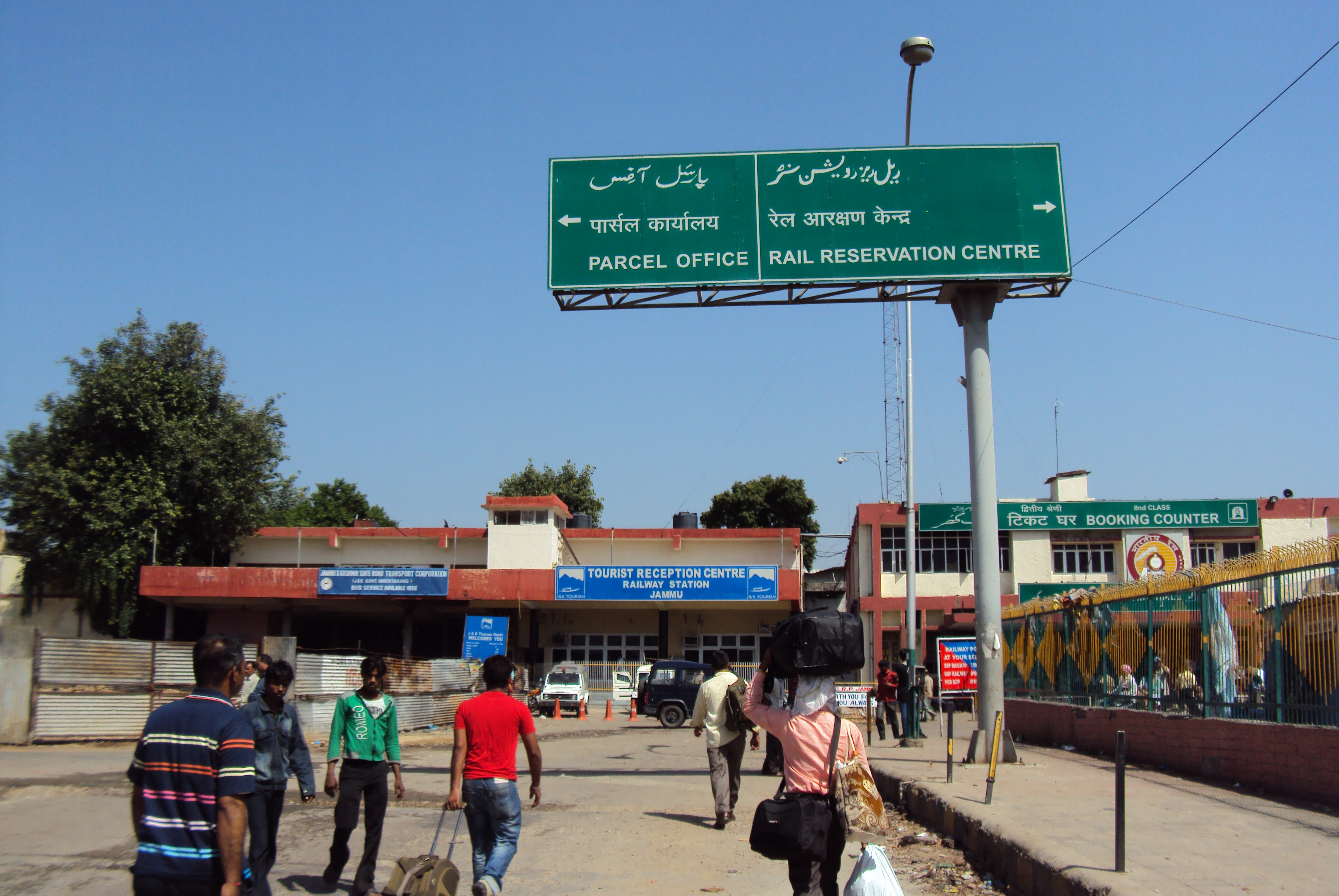 Jammu Tawi to Delhi - Rail side views